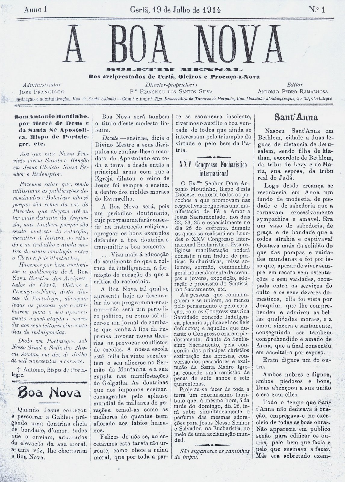 Cover of a 1914 newspaper